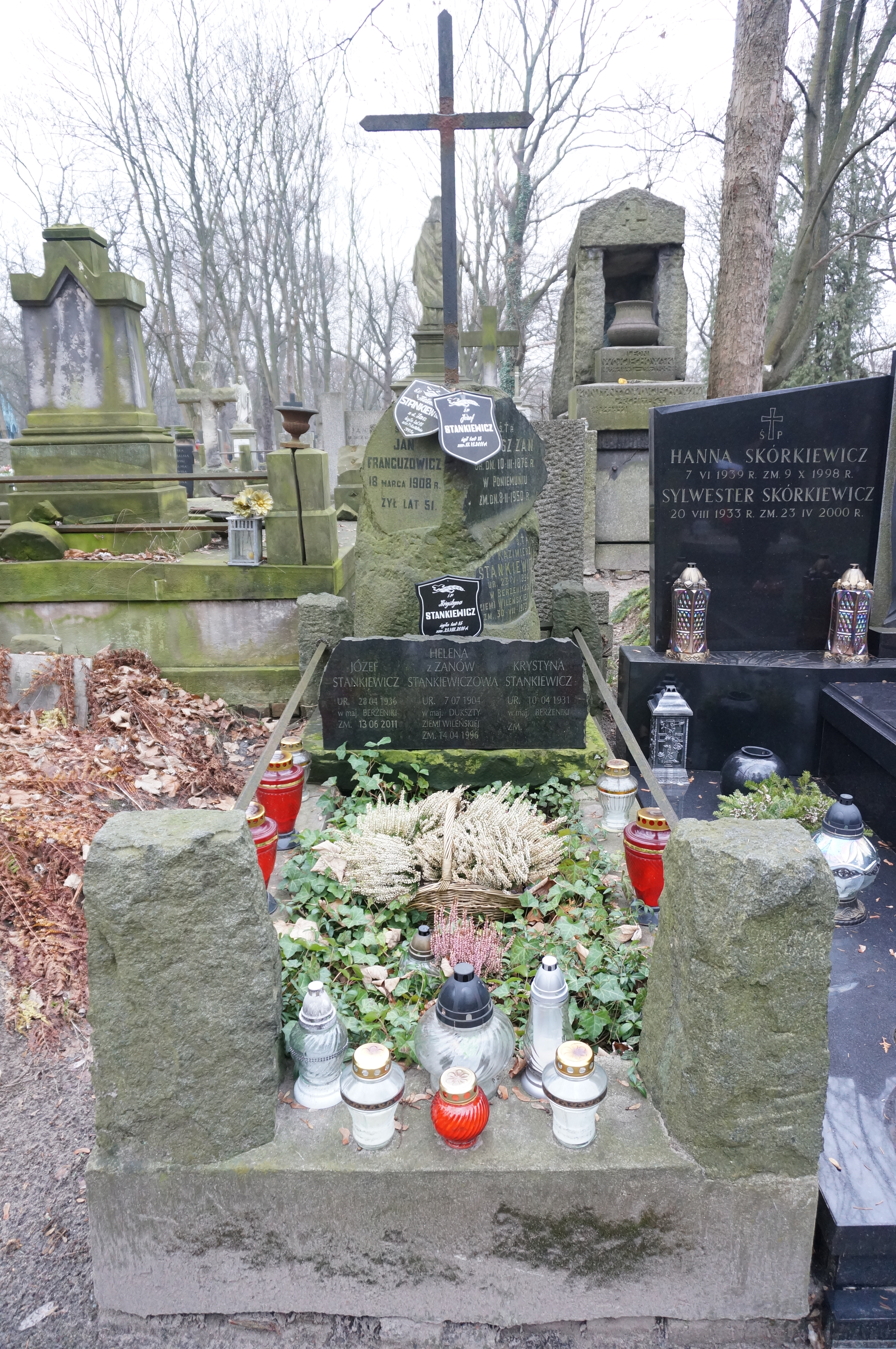 The grave of Helena Stankiewicz at the Powązki Cemetery (section K, row 6, grave 6)